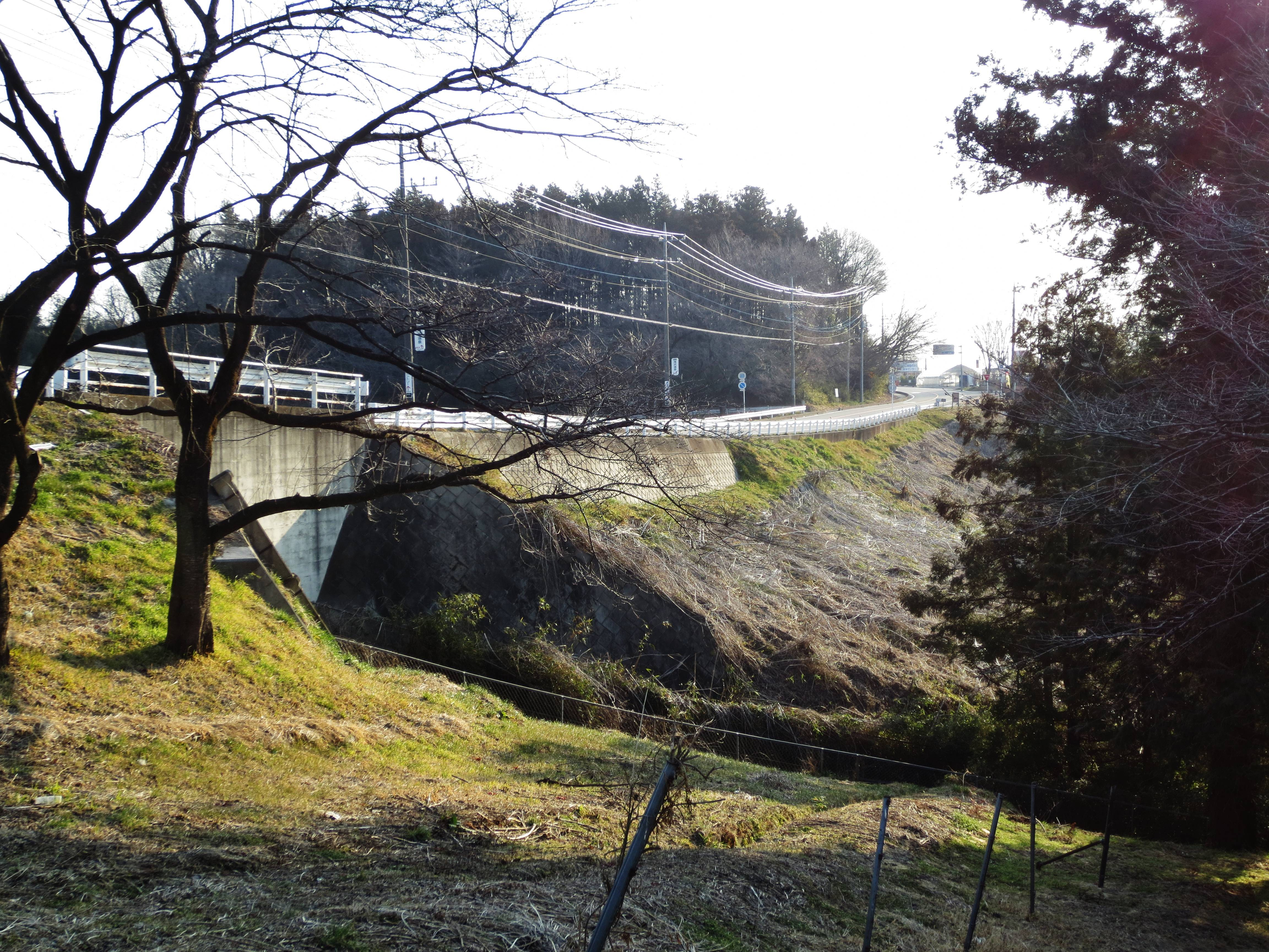 Terazawa Dam.